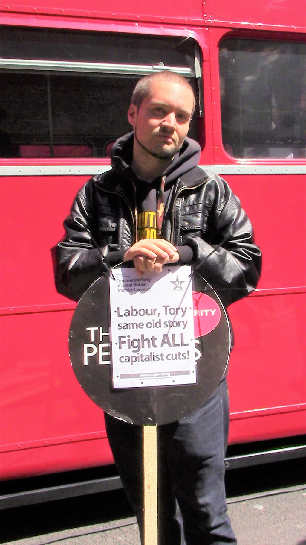 Hip-hop artist and journalist Marcel Cartier at London's 2016 MayDay rally. Behind him is the bus used by Jeremy Corbyn to give his speech at the rally. He is holding a communist party leaflet crudly ziptied to a placard belonging to the People's Assembly Against Austerity.